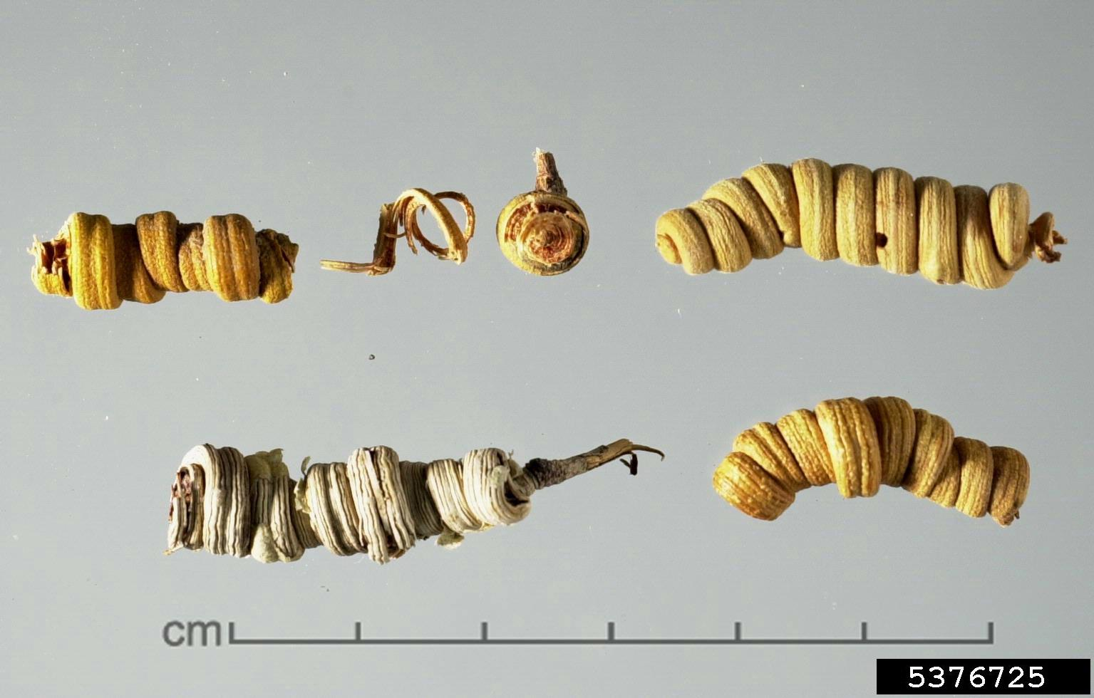 Fruits of Prosopis strombulifera (Lamarck) Bentham